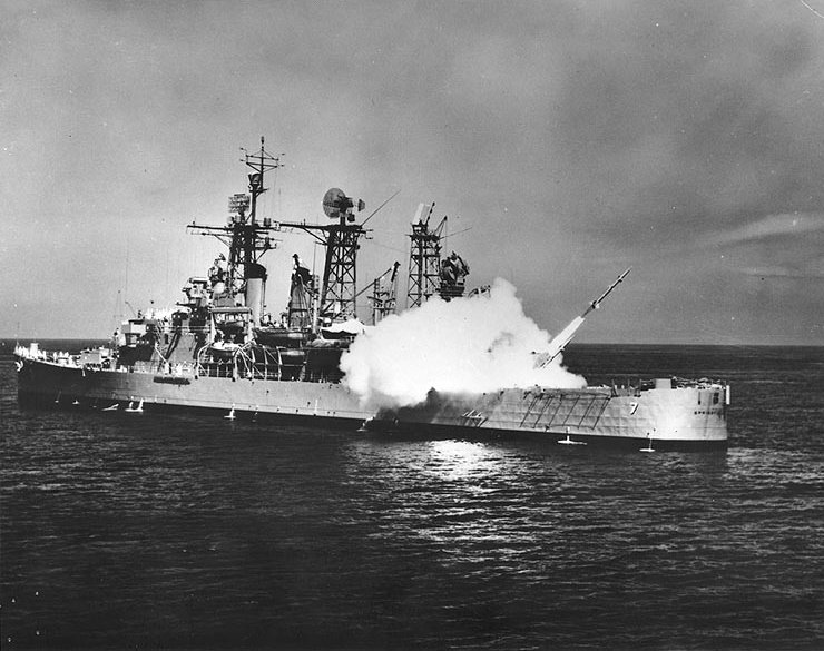 USS Springfield (CLG-7) fires a "Terrier" guided missile on the Ceres Missile Range, in the Mediterranean Sea, 6 June 1961.